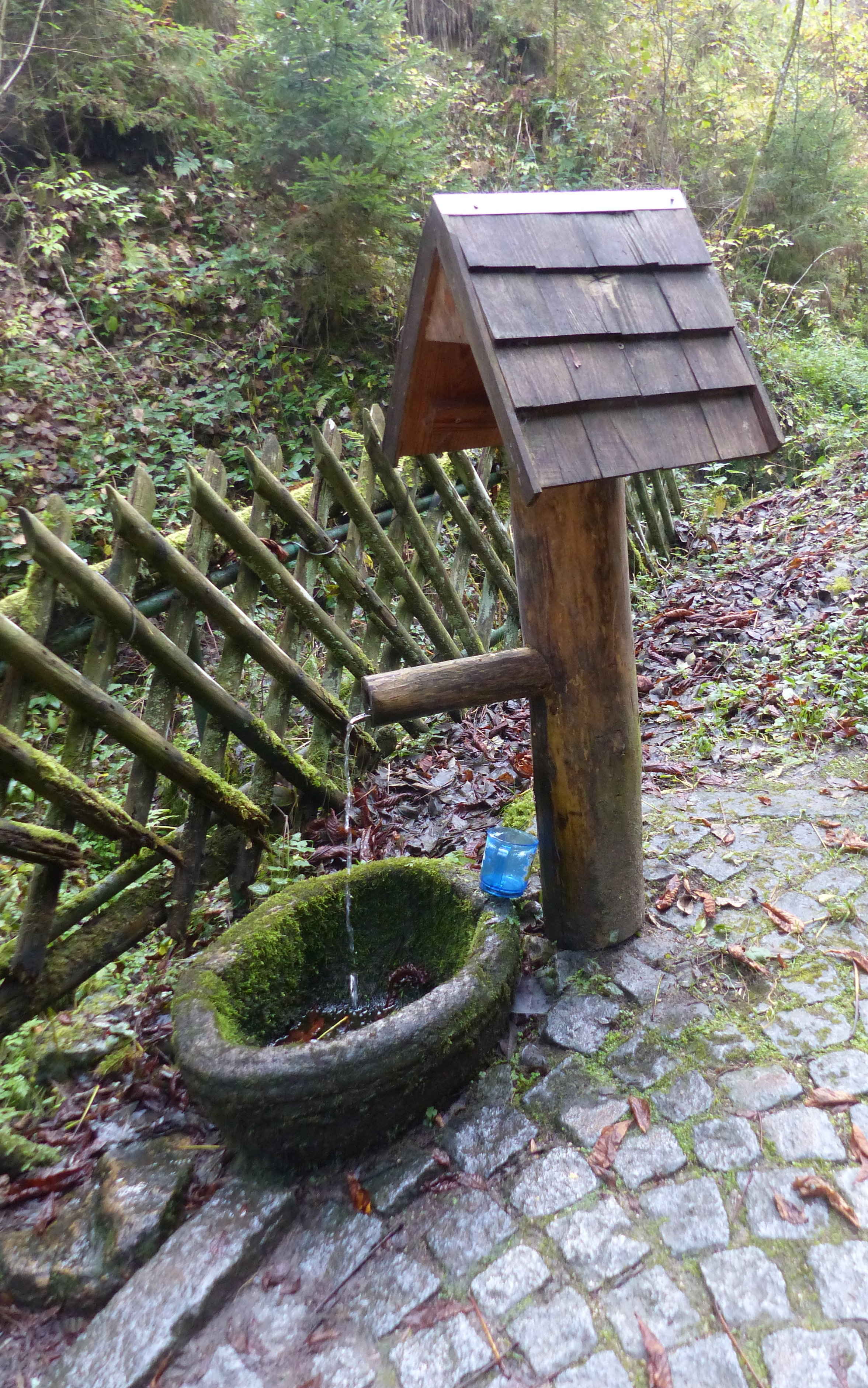 Altenfelden ( Upper Austria ). Maria Poetsch chapel: Holy well.